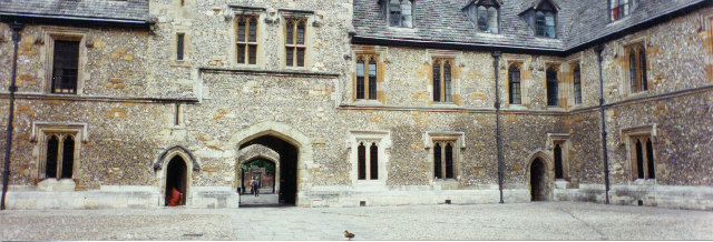 Winchester College courtyard and learned duck. This shows part of the interior courtyard and dormitory windows of this ancient school. In-camera panorama. Photographer at SU482289.